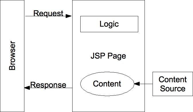 A diagram explaining how Model 1 applications are structured.